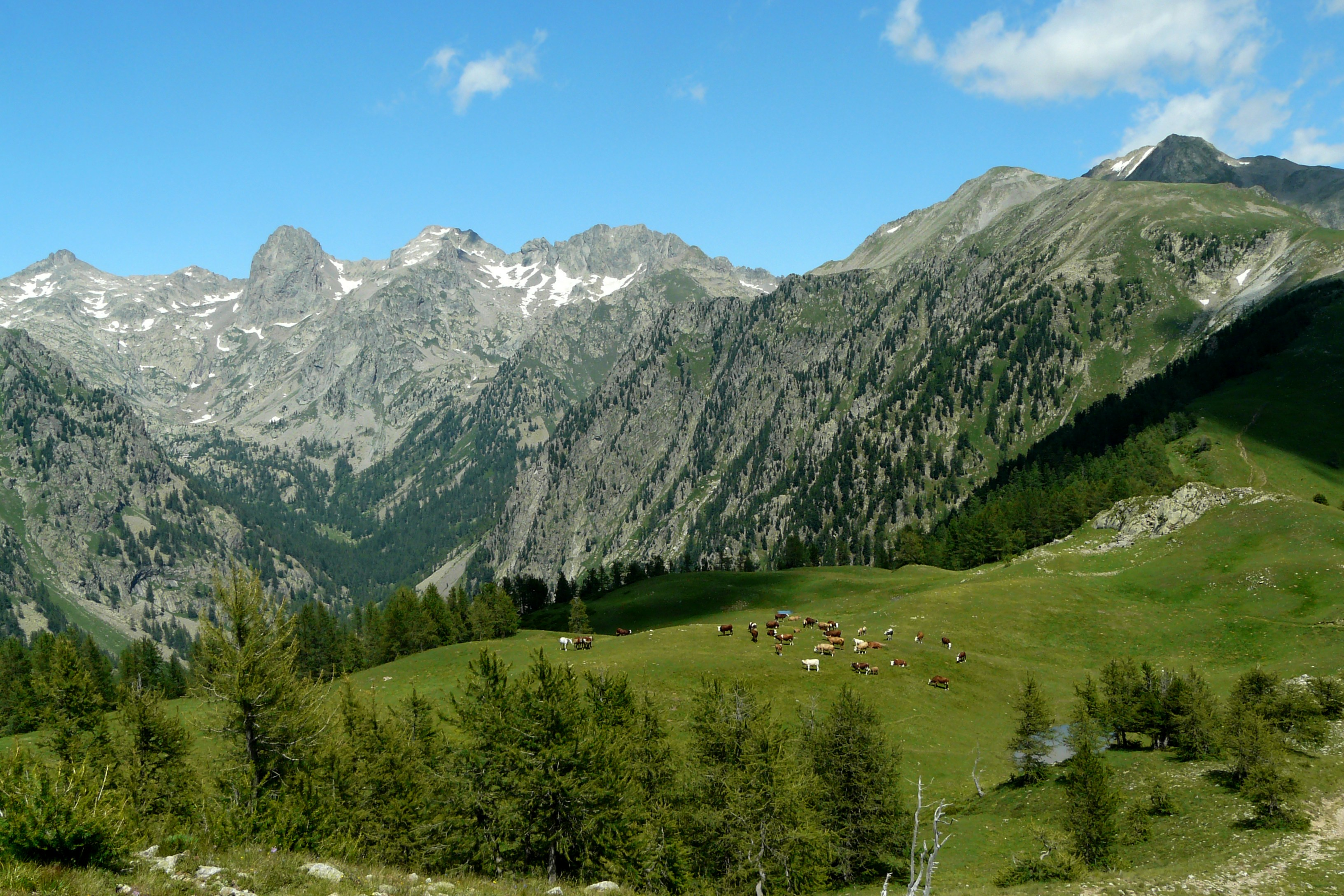 Cows grazing close to Pas des Roubines de la Maïris and view on Haut Boréon vale, on caïre de l'Agnel (2937 m) and on cime de l'Agnel (2927 m), in the Mercantour national park, Maritime Alps, France